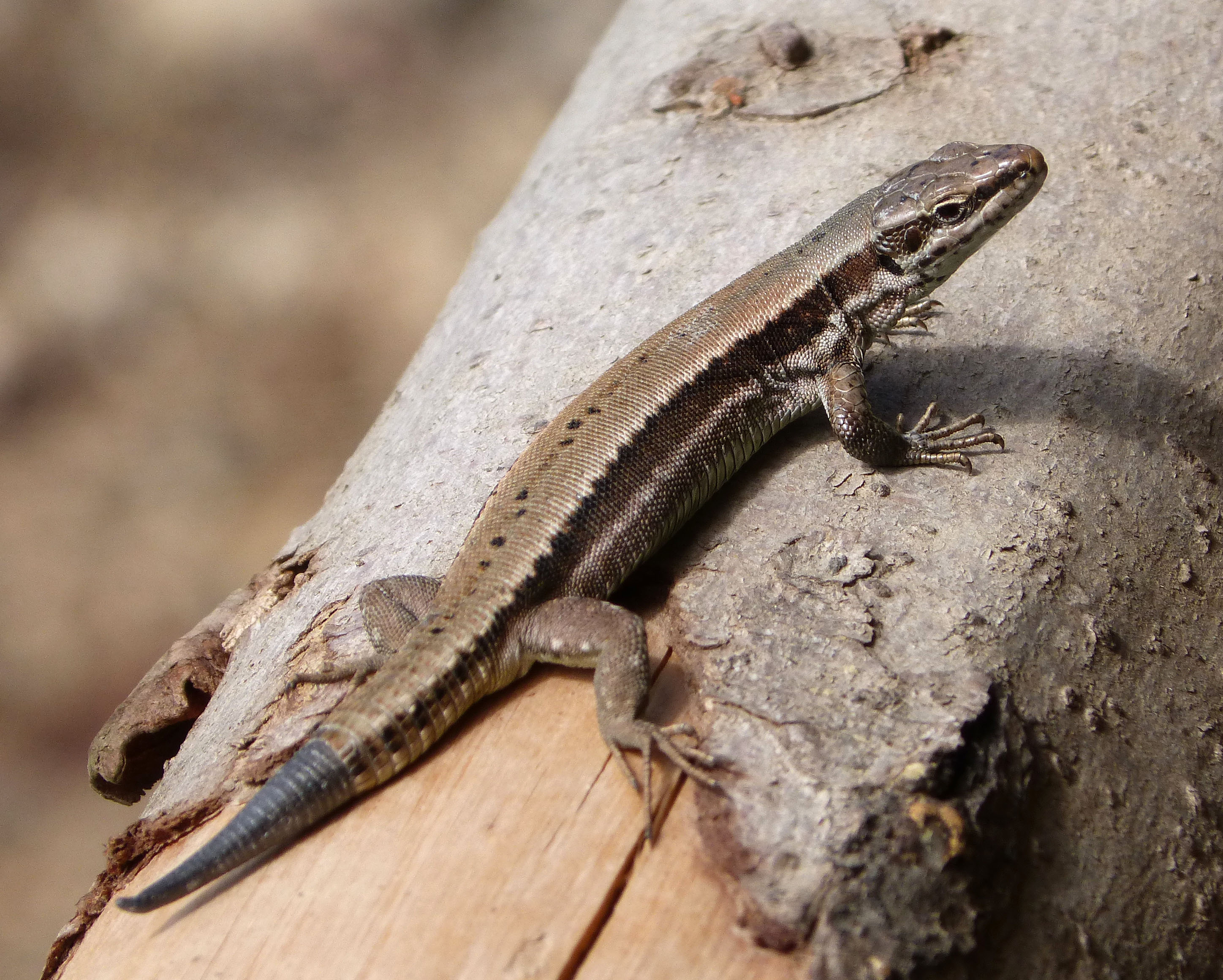 Horvath's rock lizard Iberolacerta horvathi